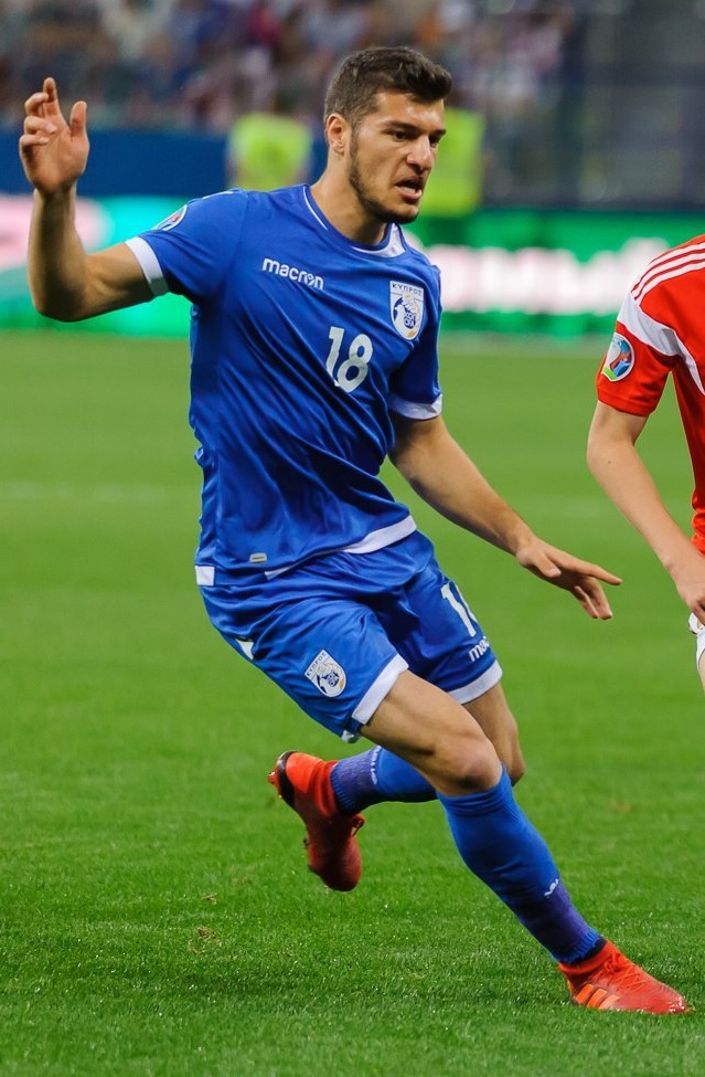 Kostakis Artymatas with Cyprus national team in an Euro 2020 qualifier against Russia in Nizhny Novgorod, Russia.